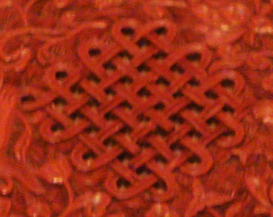 Cropped version of File:Red lacquerware dish, Ming Dynasty.jpg to show "Endless Knot" motif in center. Original description of File:Red lacquerware dish, Ming Dynasty.jpg - A Chinese dish made of red lacquer over wood, from the Ming Dynasty, dated late 15th to mid 16th century. In the center design of this dish, two archaistic carved dragons without scales twist their bodies in reach of an endless knot, a symbol of longevity in Chinese culture. To make this dish even more auspicious, on the reverse side there is a carved design of chrysanthemums, flowers which are representative of long life in Chinese culture. The designs of billowing waves and lotus flowers carved into the background represent a watery environment, which the Chinese believed was the dragon's natural habitat. Other designs include cattails, a fish, and a crab.